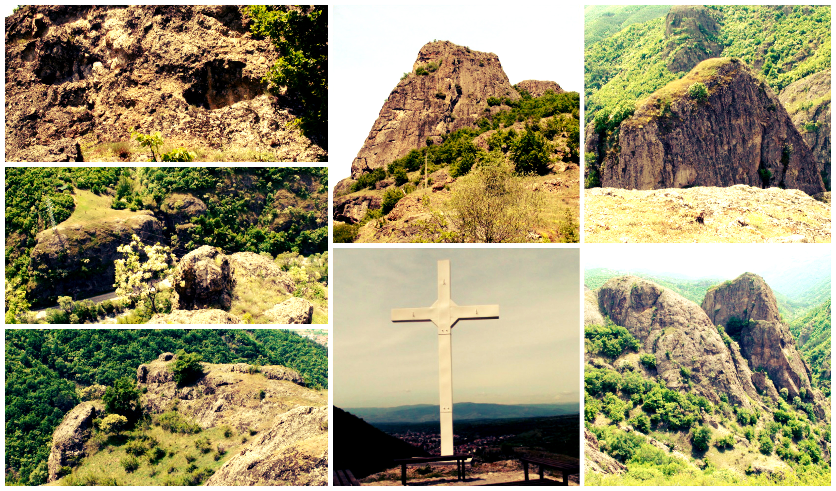 The Cross Rila BG